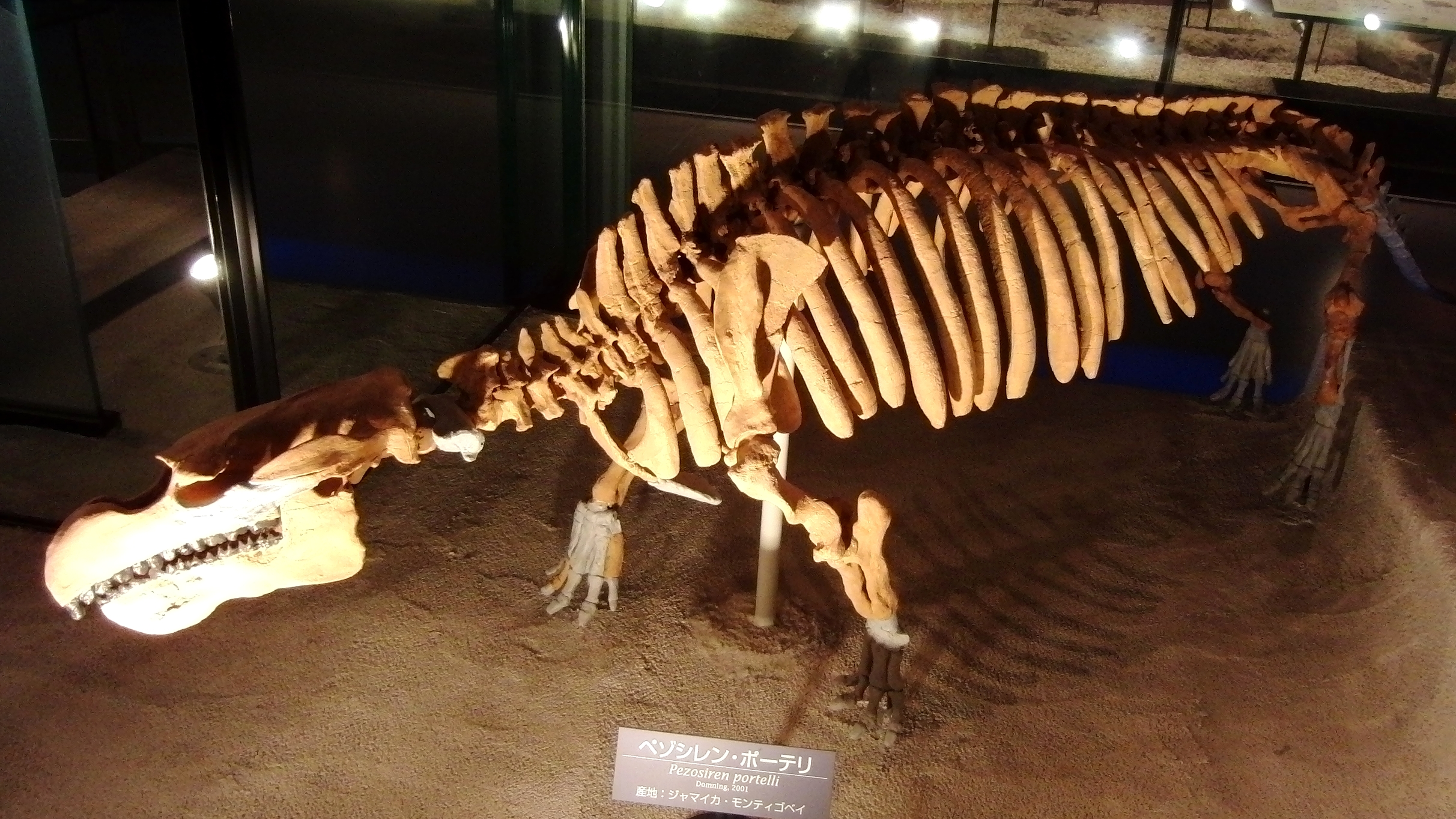 Skelton of Pezosiren portelli. Exhibit in the National Museum of Nature and Science, Tokyo, Japan.